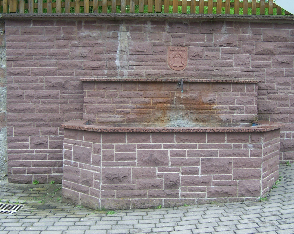 The new-made spring in Klings.